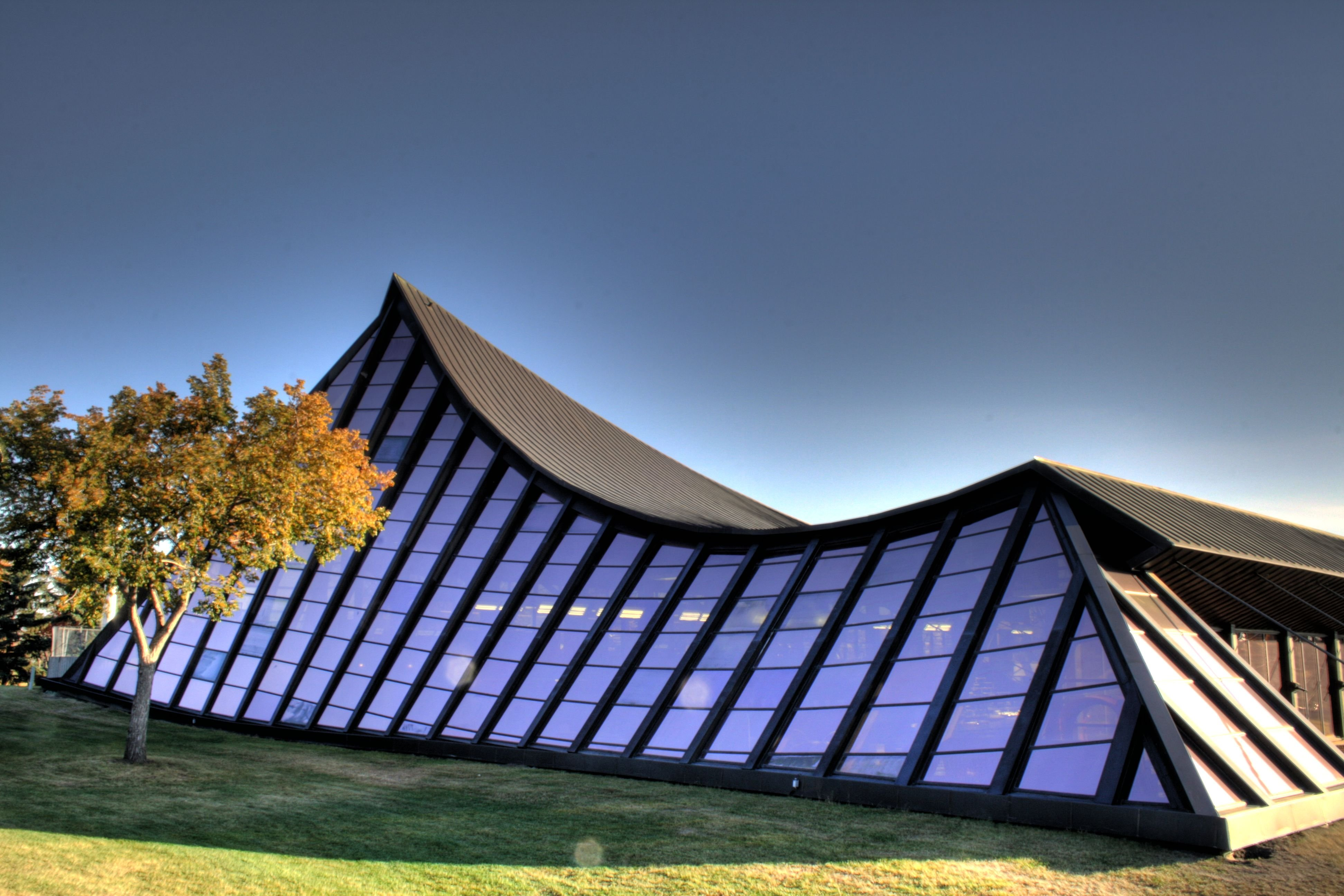 Coronation Leisure Center in Edmonton, Alberta, Canada. Renamed to Peter Hemingway Fitness and Leisure Centre